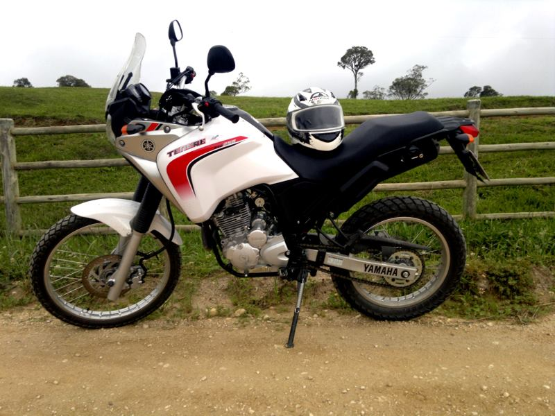 Motorcycle called Ténéré 250cc